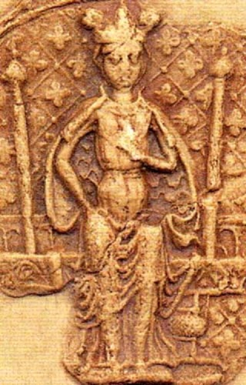 Queen Sofia (1260) of Sweden, as depicted on her royal seal (excerpt)